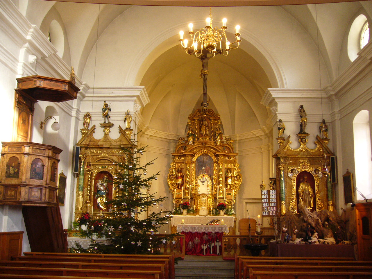 In the Church of Andiast. Village in the canton of Graubünden, Switzerland. Picture taken by Peter Berger, December 31, 2006.